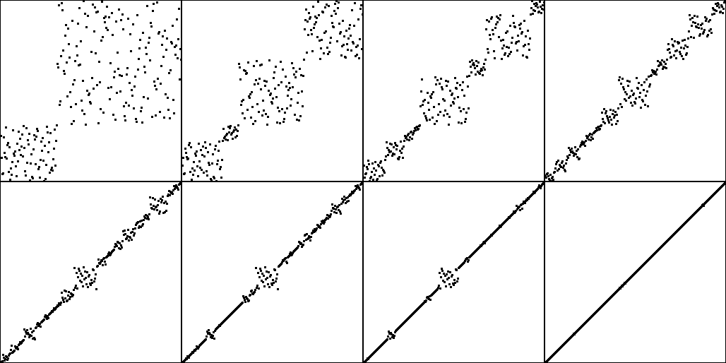 Progress while sorting with quicksort